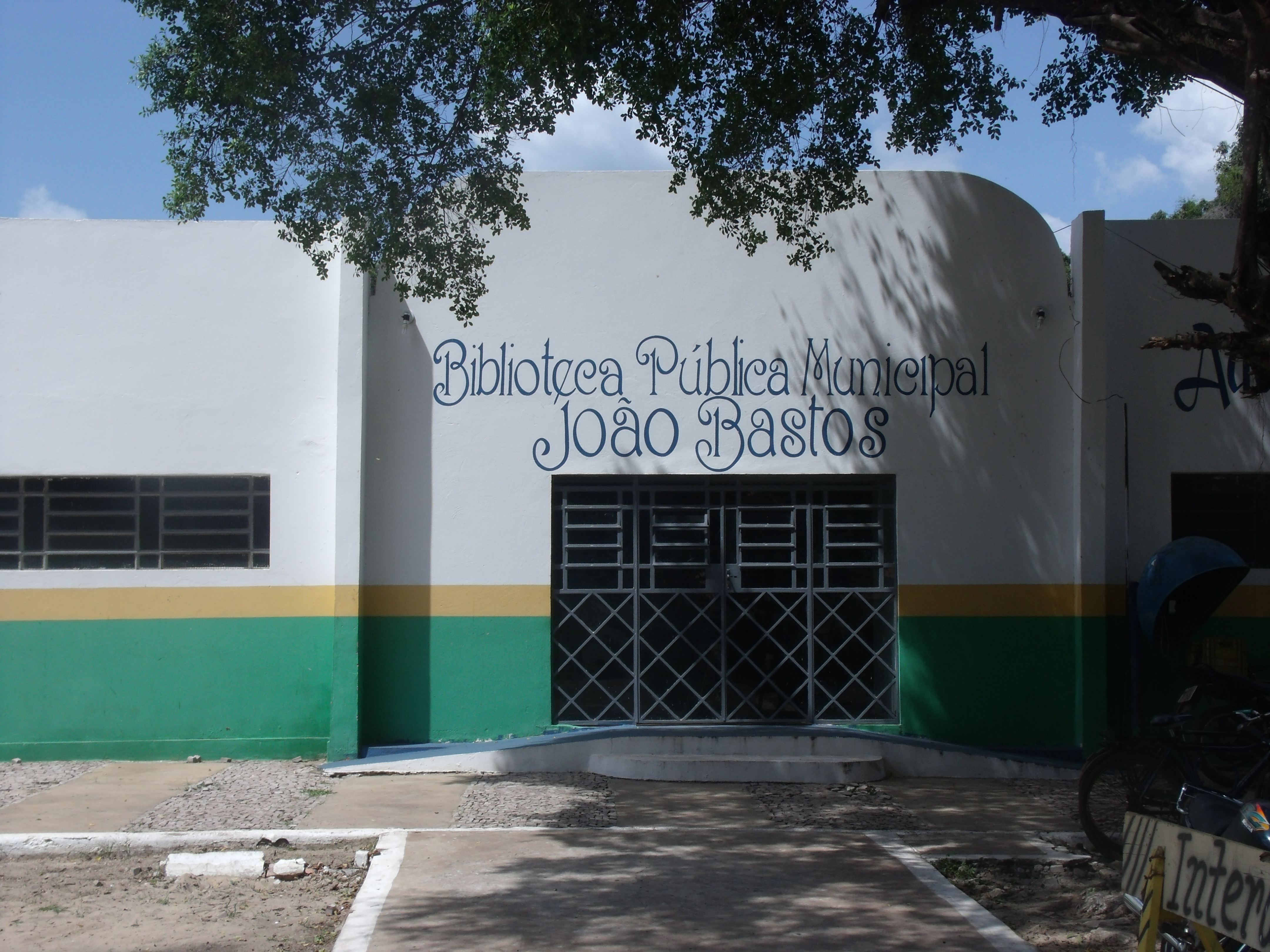 Front image of the Municipal Library Altos, state of Piaui.